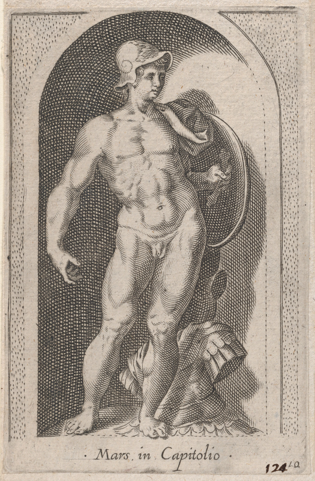 Print; Prints